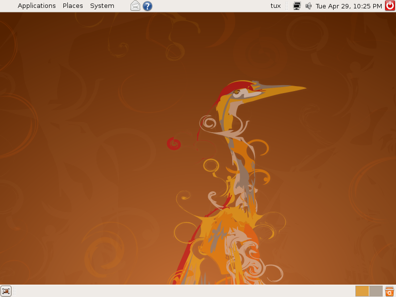 Screenshot of Ubuntu 8.04.